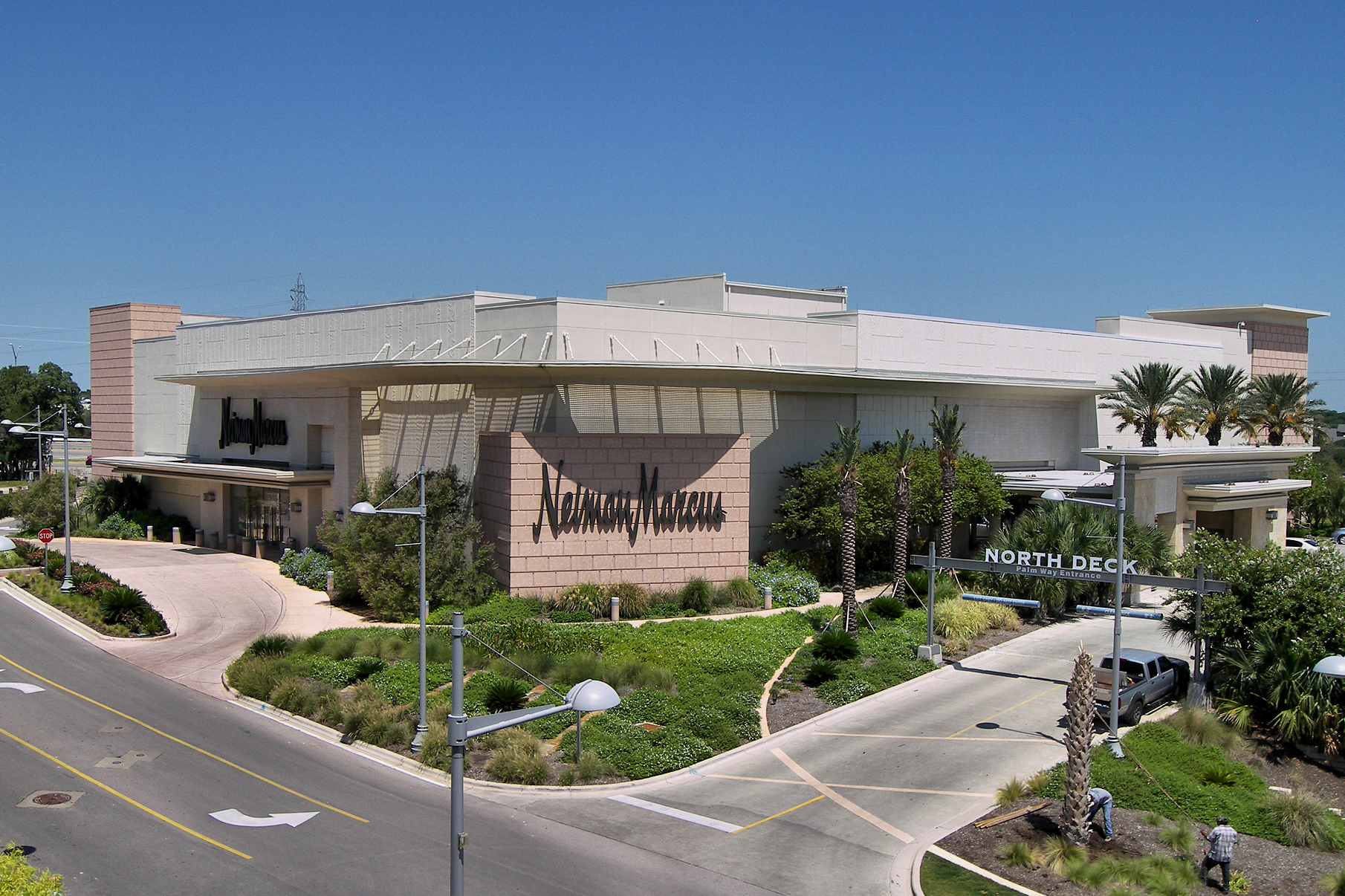 Neiman Marcus store in the first phase of The Domain shopping center Austin, Texas, United States.